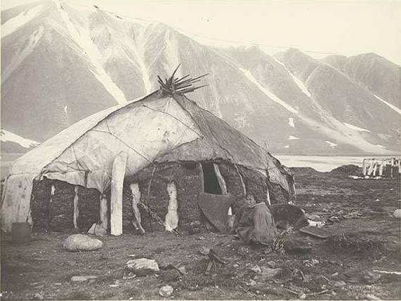 An Eskimo winter house at Plover (Provideniya) Bay, Chukotka, Russia, photographed 1899 by Edward S Curtis, a member of the Harriman Alaska Expedition. The walls of the house are framed with whale bones and filled with sod and moss; the roof is walrus hide over poles.